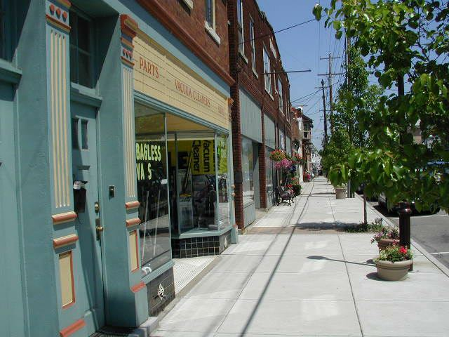 Bill Stockland, Photographer and copyright owner